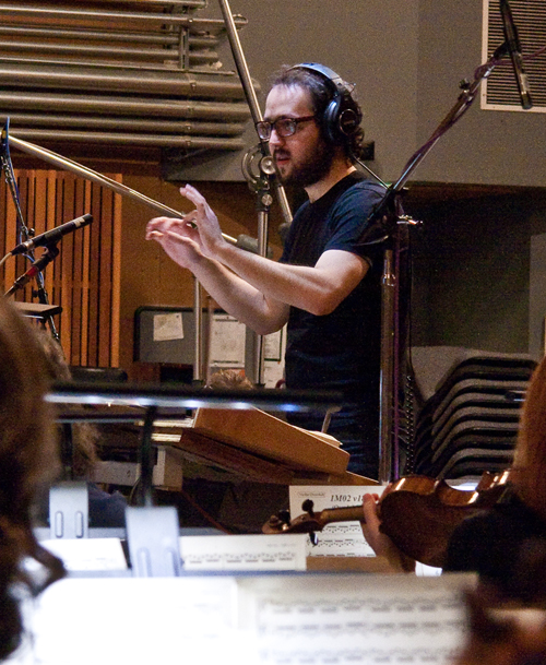 Joseph Trapanese conducts